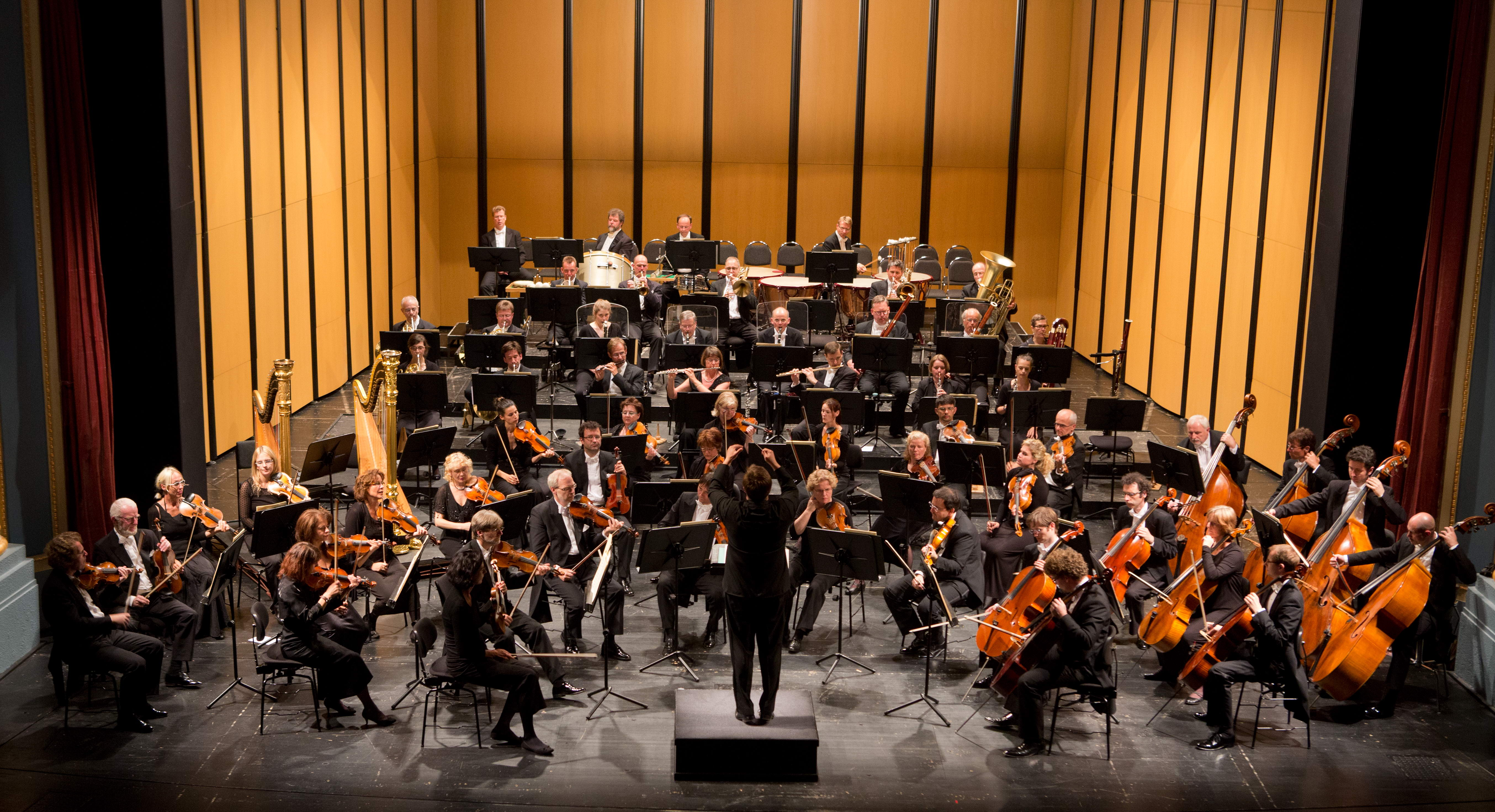 Meininger Hofkapelle (Meiningen Court Theatre orchestra) playing a symphony concert under the baton of Philippe Bach